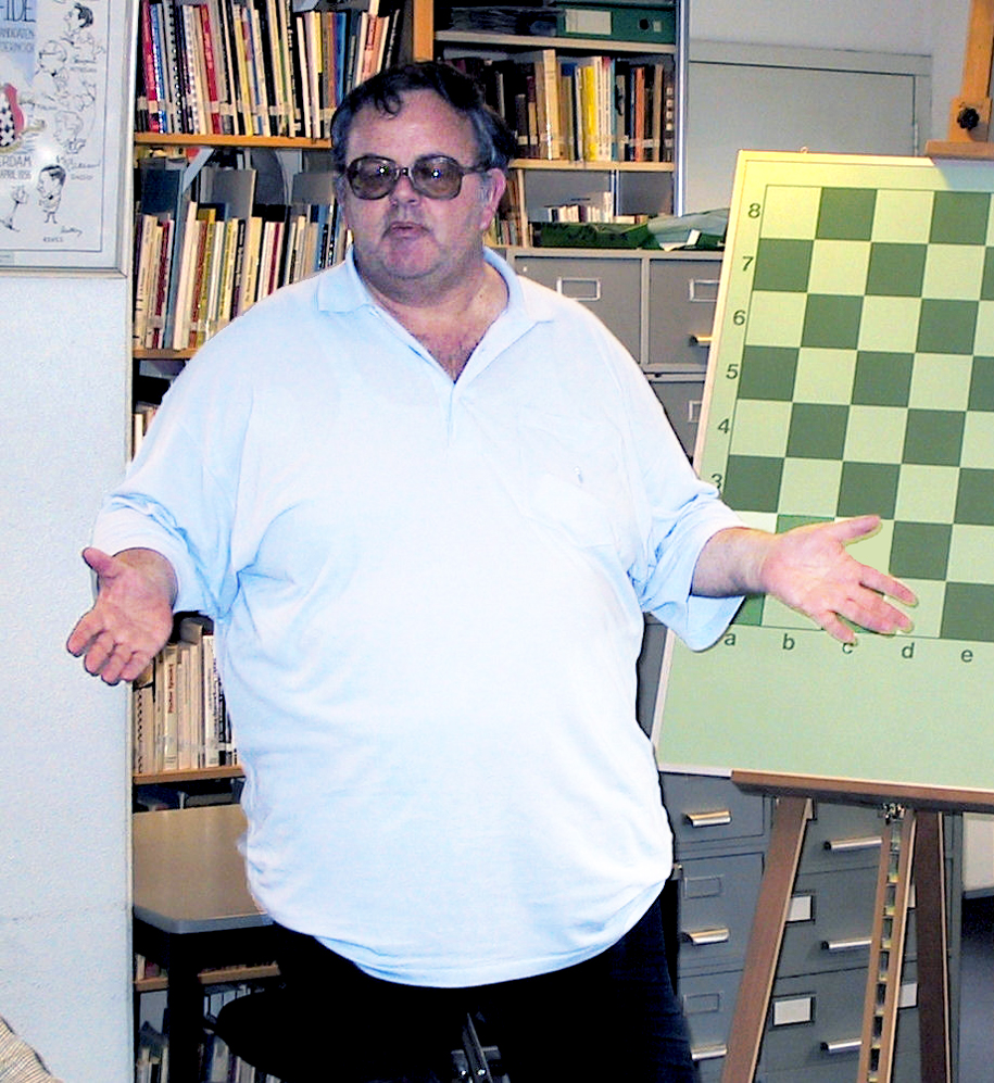 Yochanan Afek, chess sudy composer and chess player, helding a lecture in the Max Euwe centrum in Amsterdam